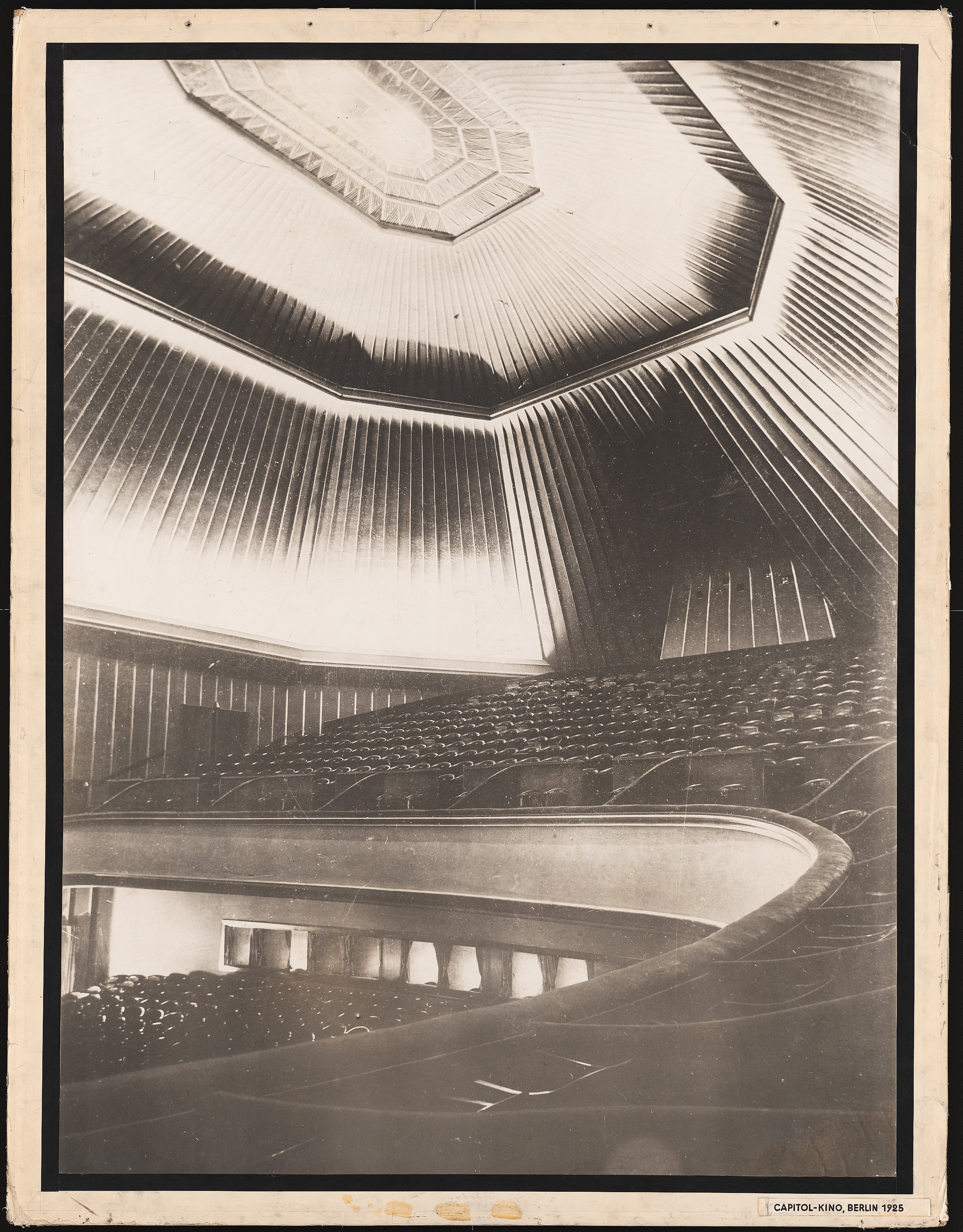 Hans Poelzig (1869-1936) Capitol-Lichtspiele am Zoo, Berlin Inhalt: Decke Innenraum, Beleuchtung Projektzeit: 1924-1924 Gattung: Foto Material/Technik: Foto auf Karton Maße: 144,3 x 112,8 cm Ort: Berlin Straße: Breitscheidplatz (historisch: Auguste-Viktoria-Platz) Inventarnummer: 3188 URL